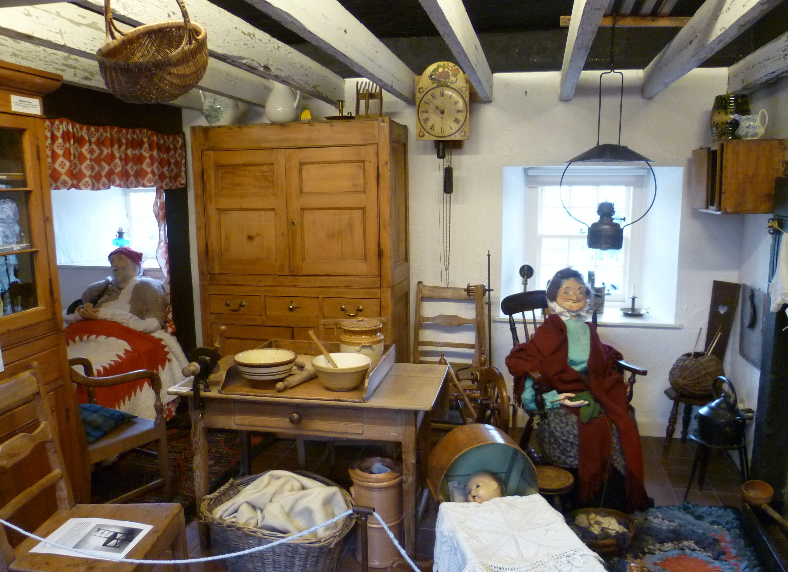 The reconstructed interior of a cottar's house.